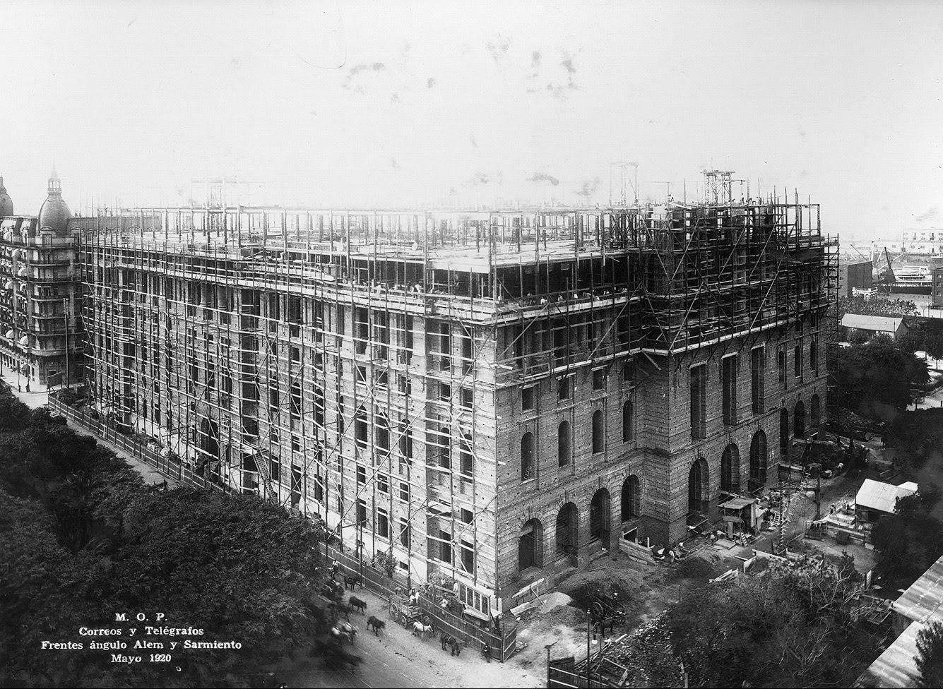 The Central Post Office of Argentina ("Palacio de Correos") during its construction. It was inaugurated in 1928.